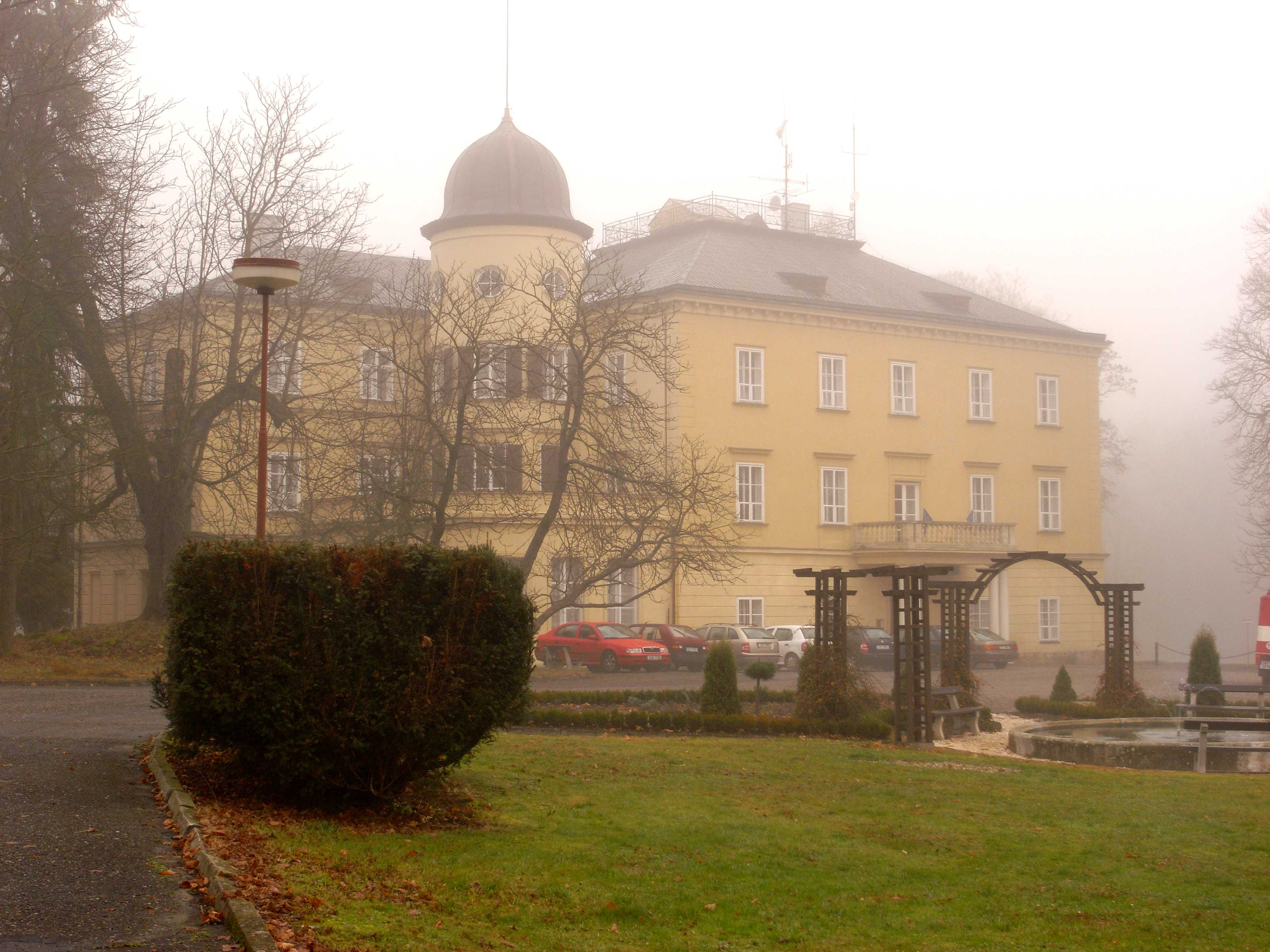 castle Bílé Poličany (Czech Republic)